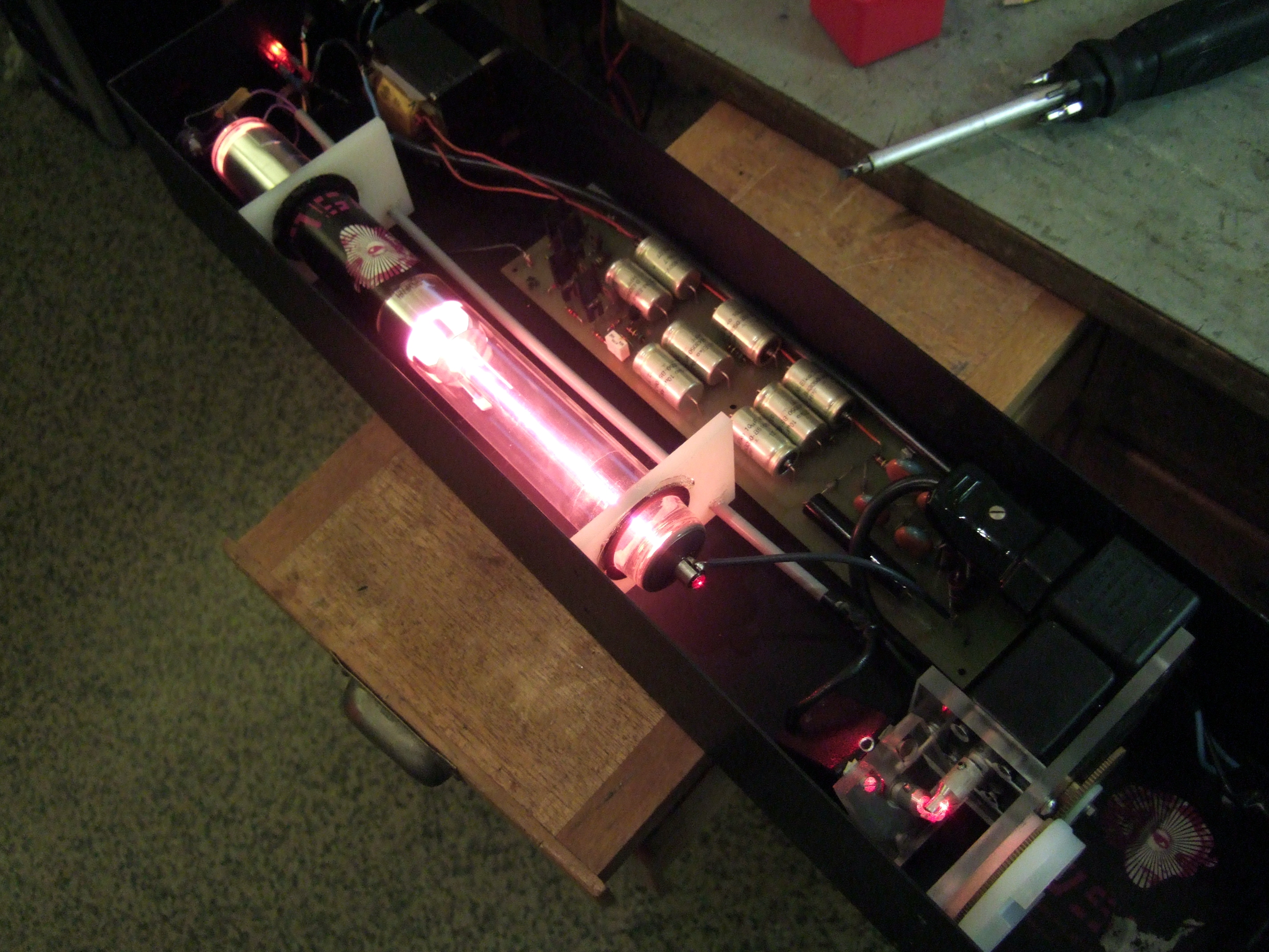 An operating HeNe-Laser. 5mW Output-Power.